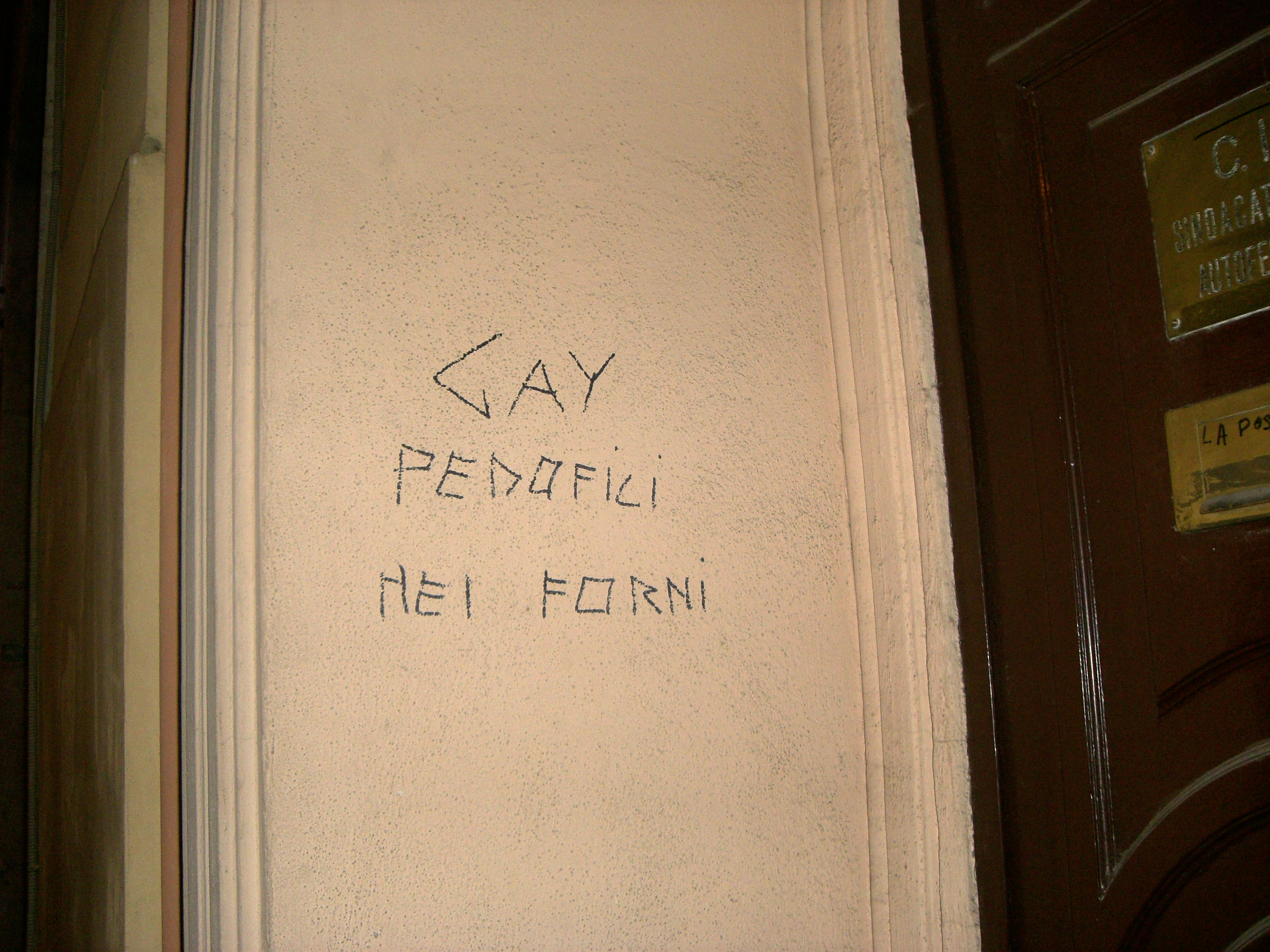 Homophobic slur (GAY R PAEDOPHILE, TO THE CREMATORIUM" in via San Giovanni in Laterano in Rome, Italy, which is the so-called "gay street" of Rome. Picture by Giovanni Dall'Orto, september 2008.